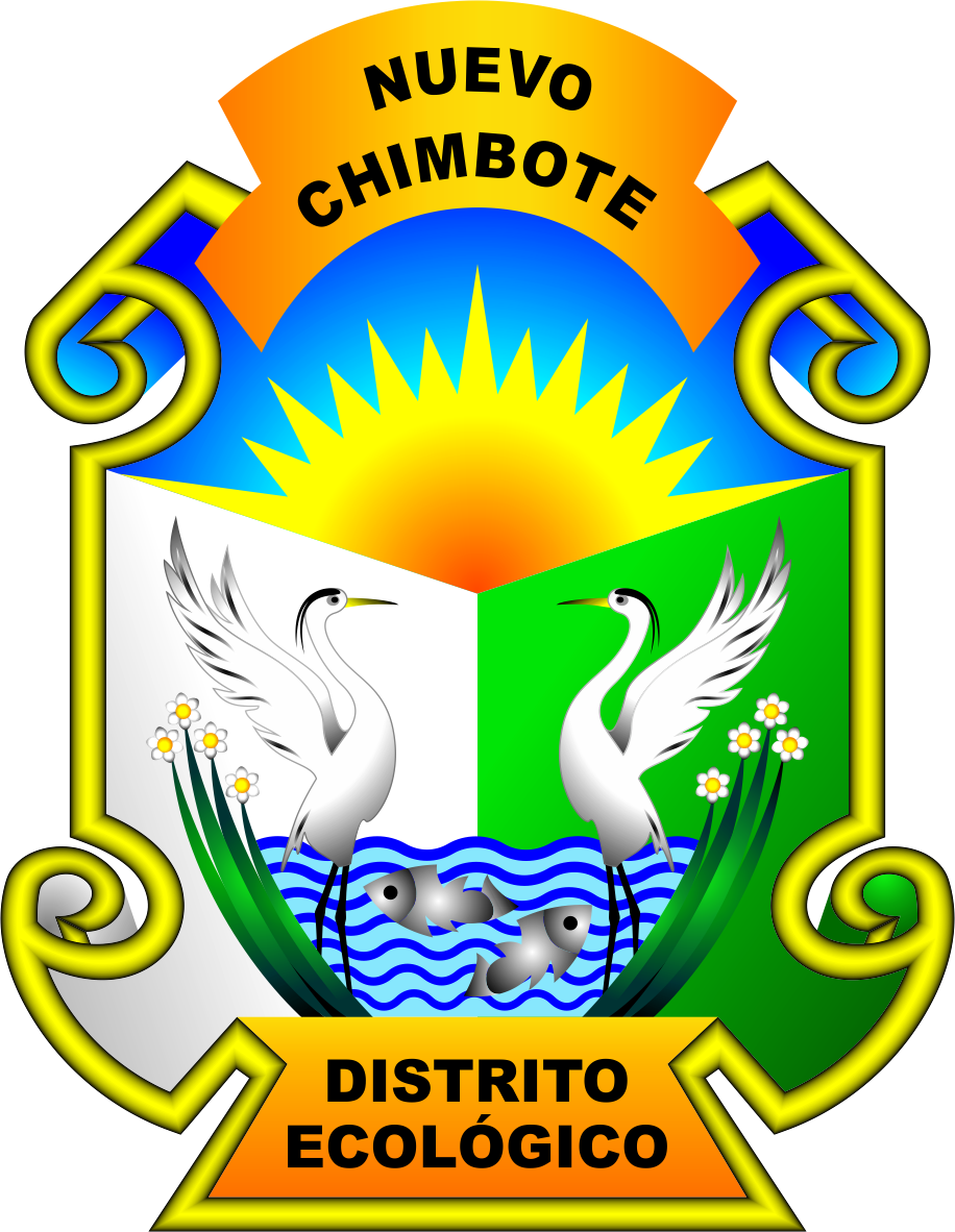 District of Chimbote - Province of Santa - Ancash Region